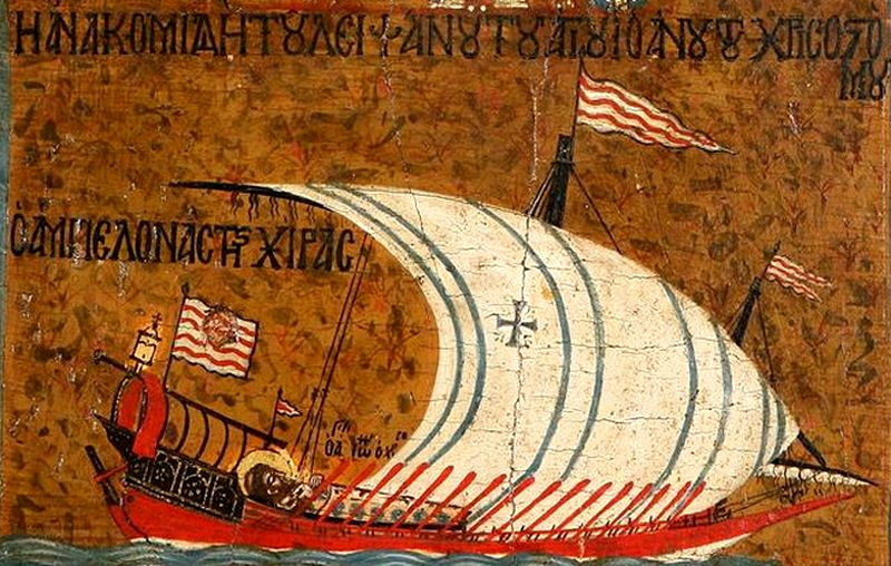 Galley bearing the body of Saint John Chrysostomos to Constantinople. Detail of an icon from Kimolos, probably from the 14th century.